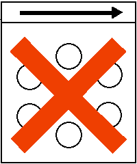 Special pictogram to warn the train crew that the station platform is not equipped with an "IOT" device.